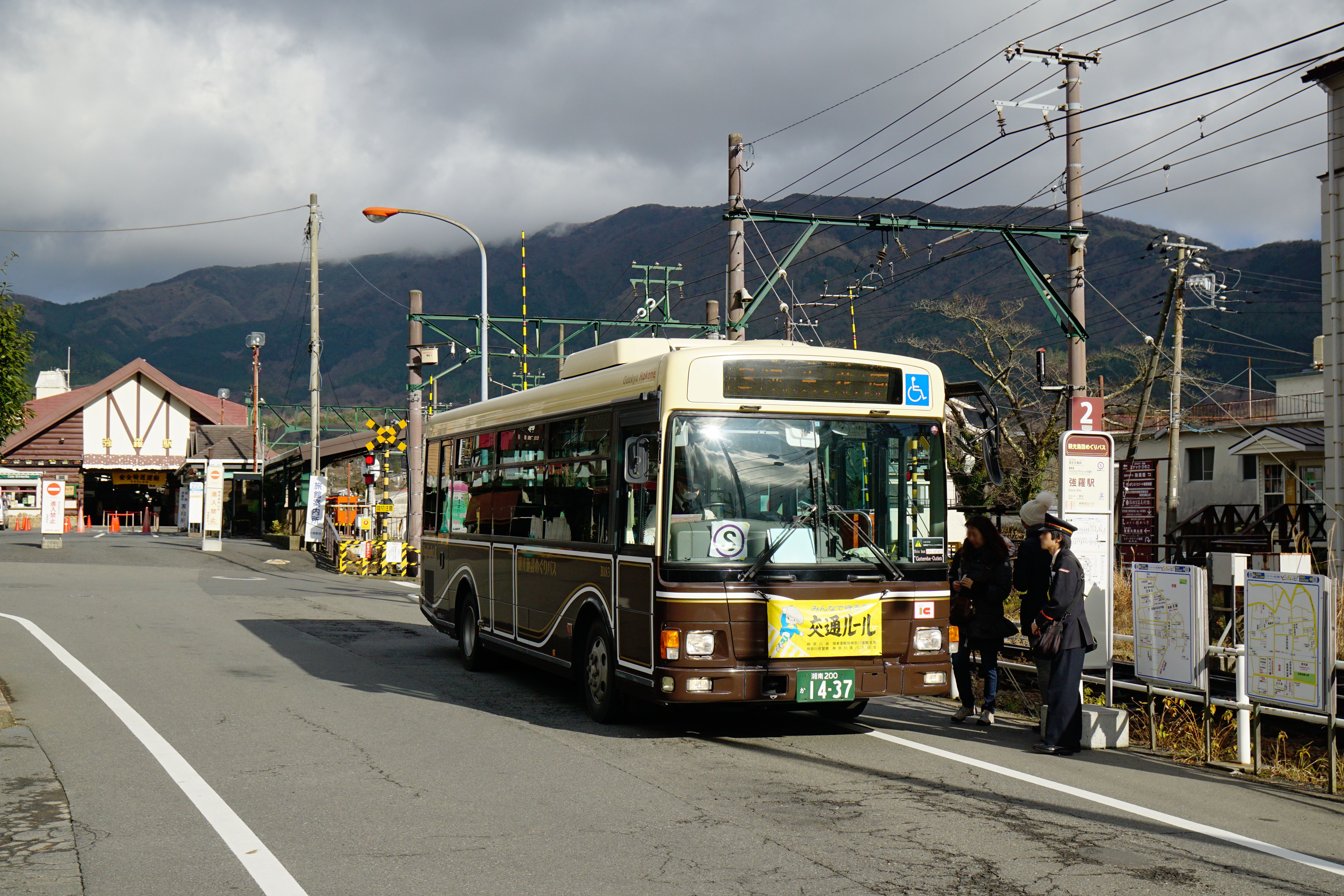 Gōra Station in Hakone Kanagawa prefecture, Japan